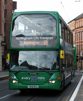 Nottingham City Transport bus 946 (reg. YN08 MSU), a 2008 Scania N270UD OmniDekka with East Lancashire Coachbuilders body, in Fletcher Gate, Nottingham.